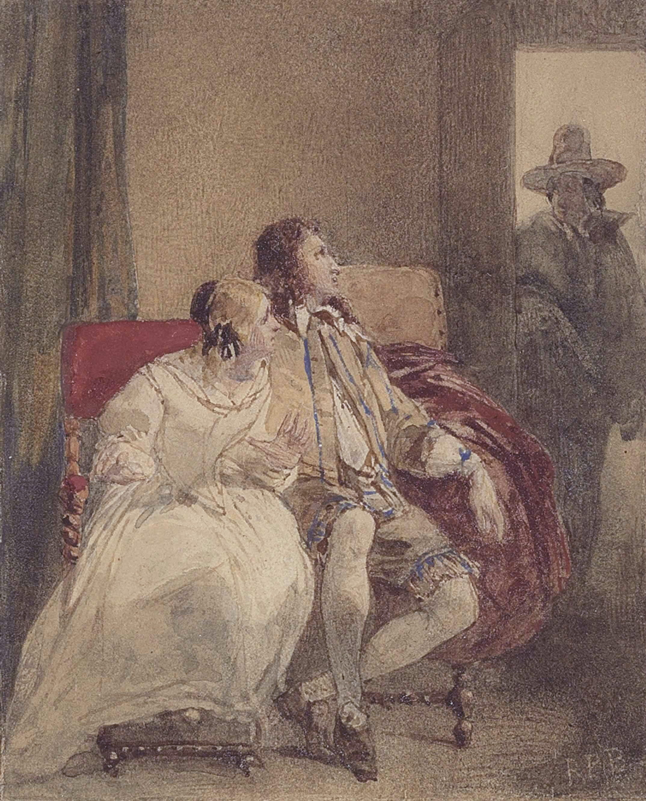 Julian Peveril and Alice Bridgenorth, surprised by Major Ralph Bridgenorth pencil and watercolor heightened with touches of bodycolor 11.4 x 9.5 cm signed b.r.: RPB ca. 1826